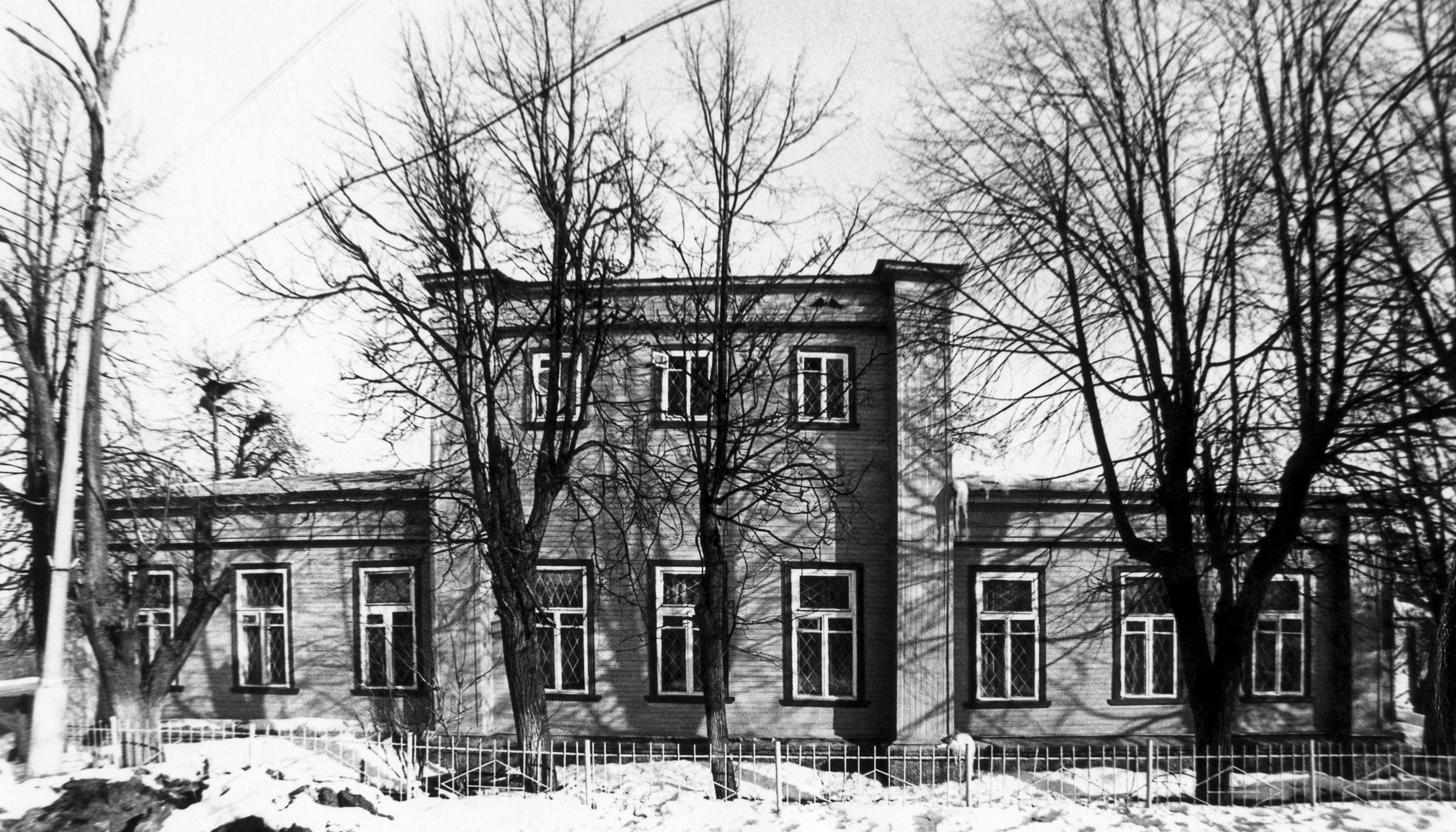 Lyceum. Pereslavl, Komsomolskaya square, #5. Former manor house of duke Nicholay Alexandrovich Vasilchikov, a graduate from the Page Corps, Cornet of Life Guards Cavalry Regiment, Decembrist. The house was transferred from the Vasilchikov estate in the Spas village in the middle of the XIX century. This historical building was destroyed in September 2008.